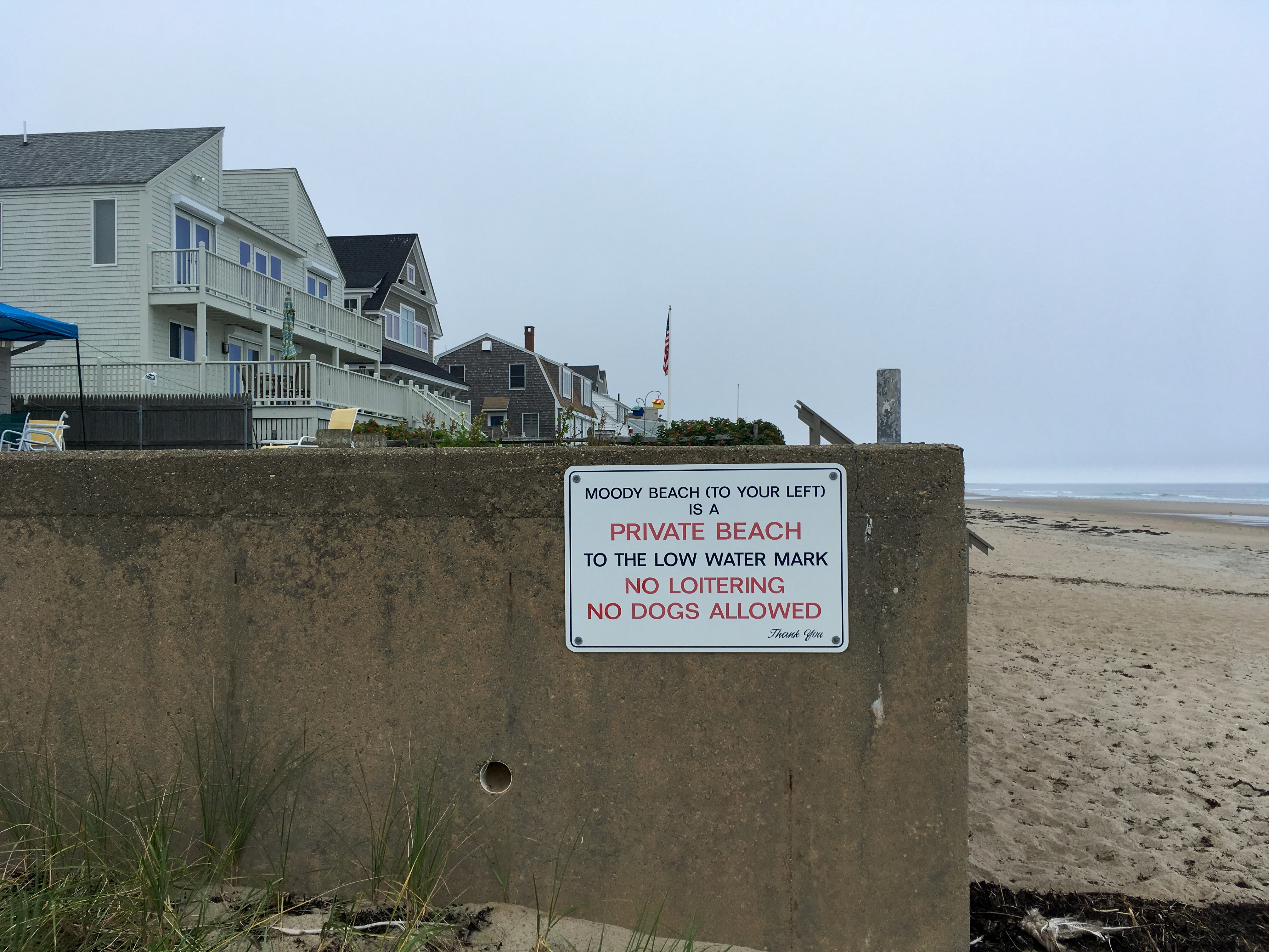 Boundary between North Beach and Moody Beach in September